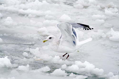 adult Thayer's Gull photographed 21 Feb 2009 at Winthrop Harbor, IL, USA